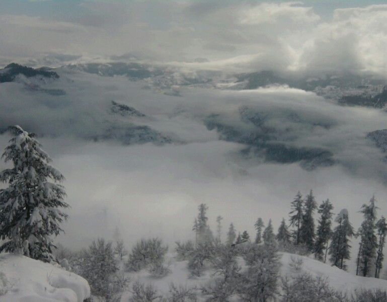 Kashah, Bamta, Chaupal